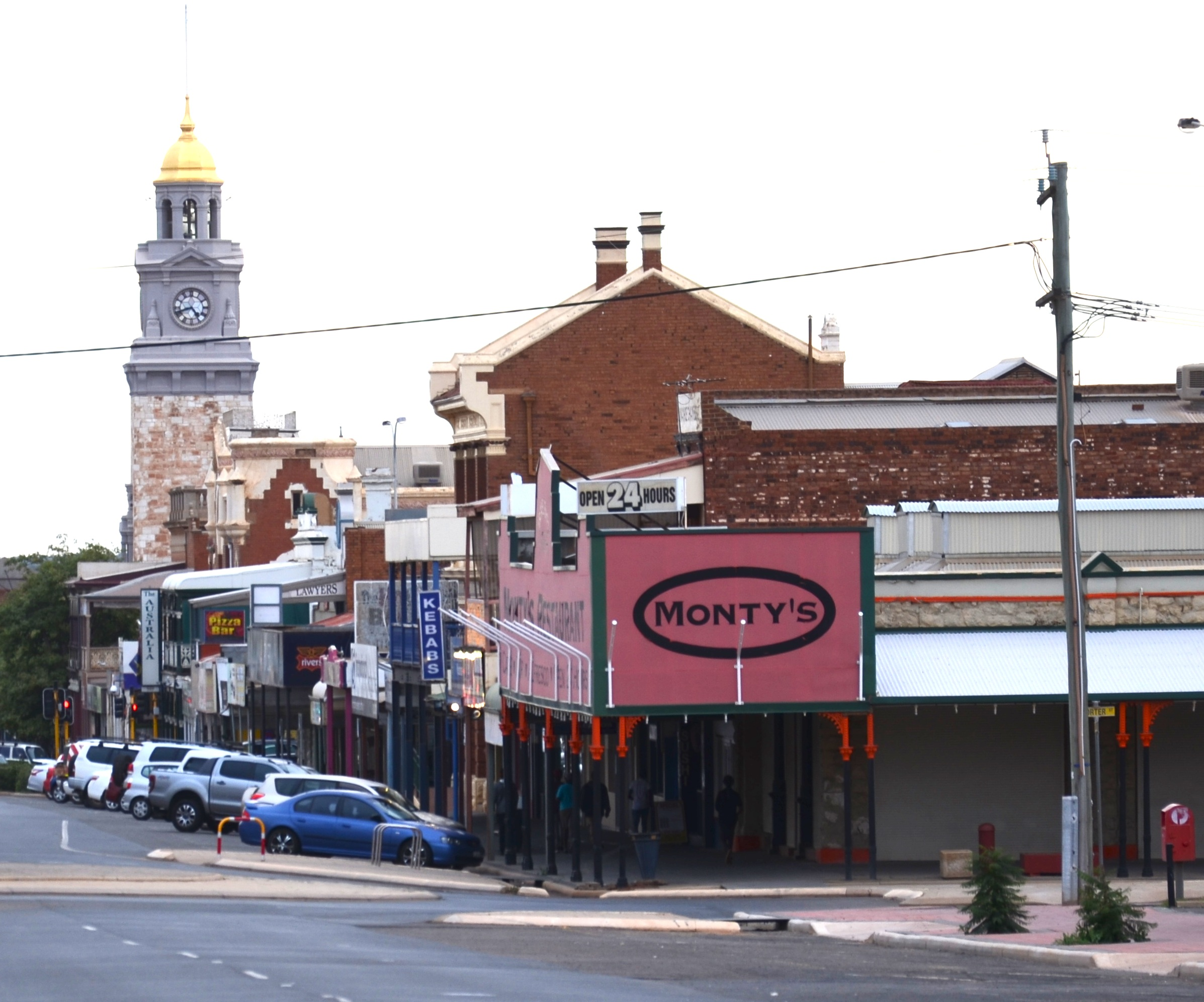 Hannan Street from the north